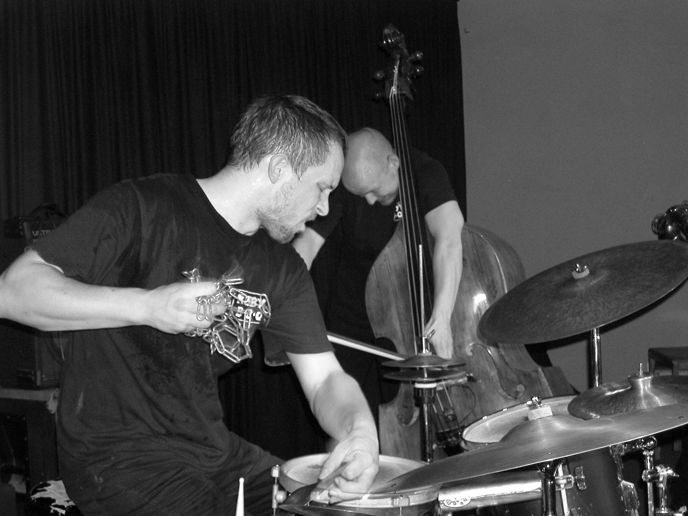 Jazz-drummer Paal Nilssen-Love in concert with The Thing in Club W71. In the back Ingebrigt Håker Flaten on bass.